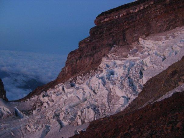 Looking down at crevasses from Disappointment Cleaver on Mt. Rainier. Photo taken mid-August 2009.